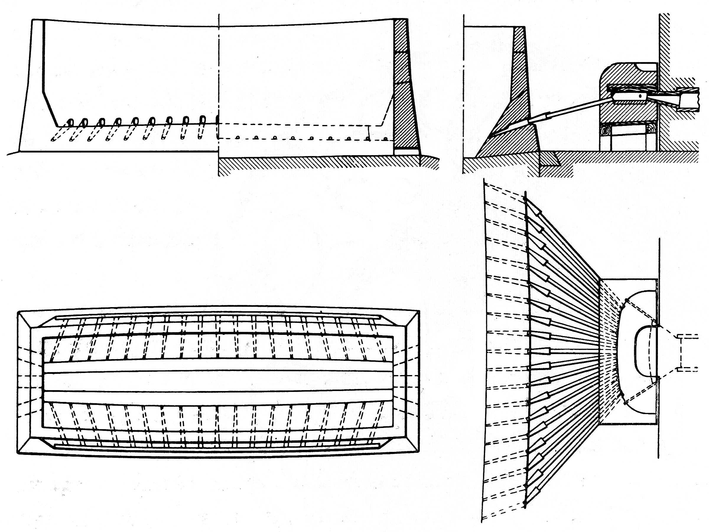 Engineering drawing of a japanese Tatara-furnace - by Adolf Ledebur